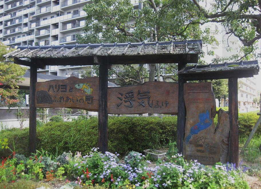 Fuke-cho, Moriyama city, Shiga prefecture, Japan